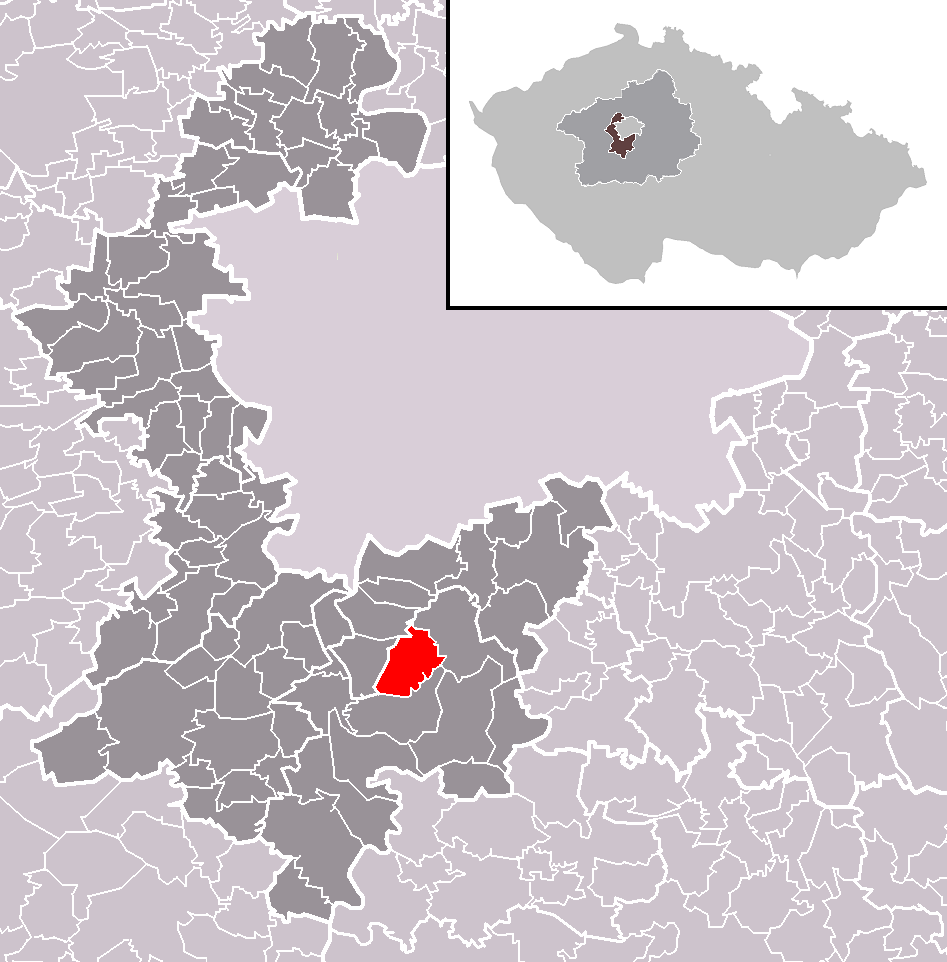 Location of Okrouhlo municipality within Prague-West District and administrative area of Černošice as a Municipality with Extended Competence.